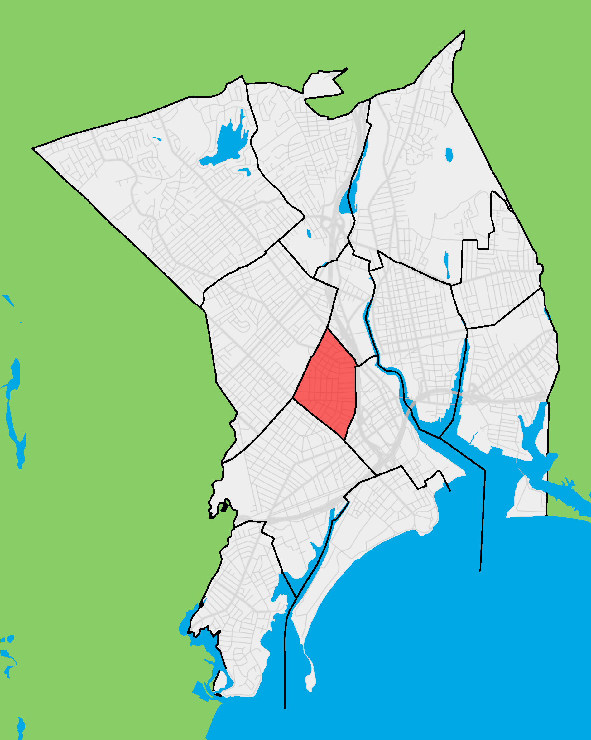 Location of the Hollow neighborhood within Bridgeport.